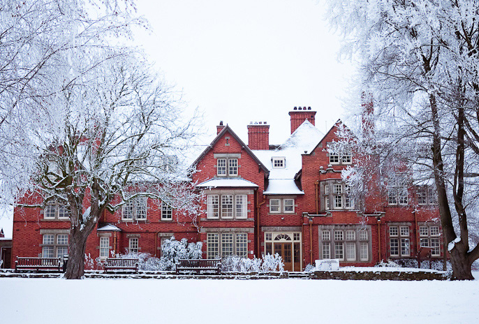 The West face of Harper Adams University's main building.